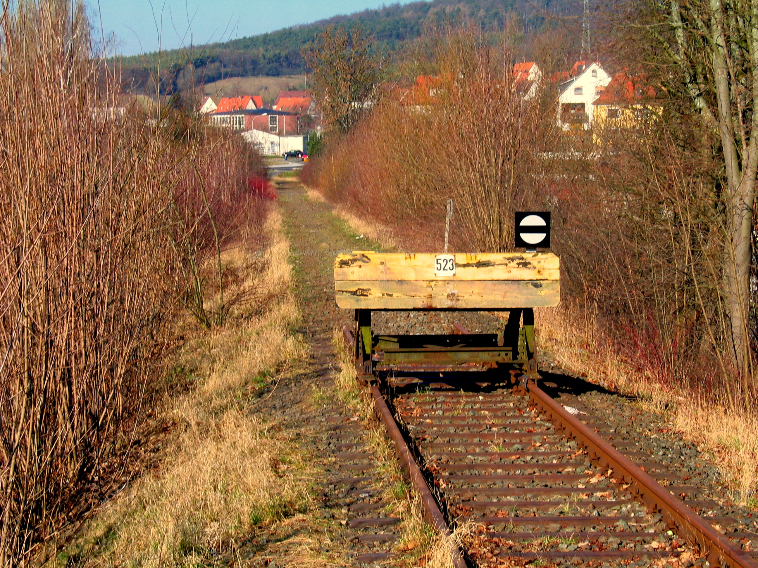 Ebern: The current rail end behind the new train stop